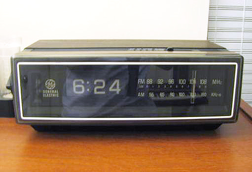 "This is a picture of a mid 1970's analog digit alarm clock radio. I took the picture myself." (wrote Trance88)